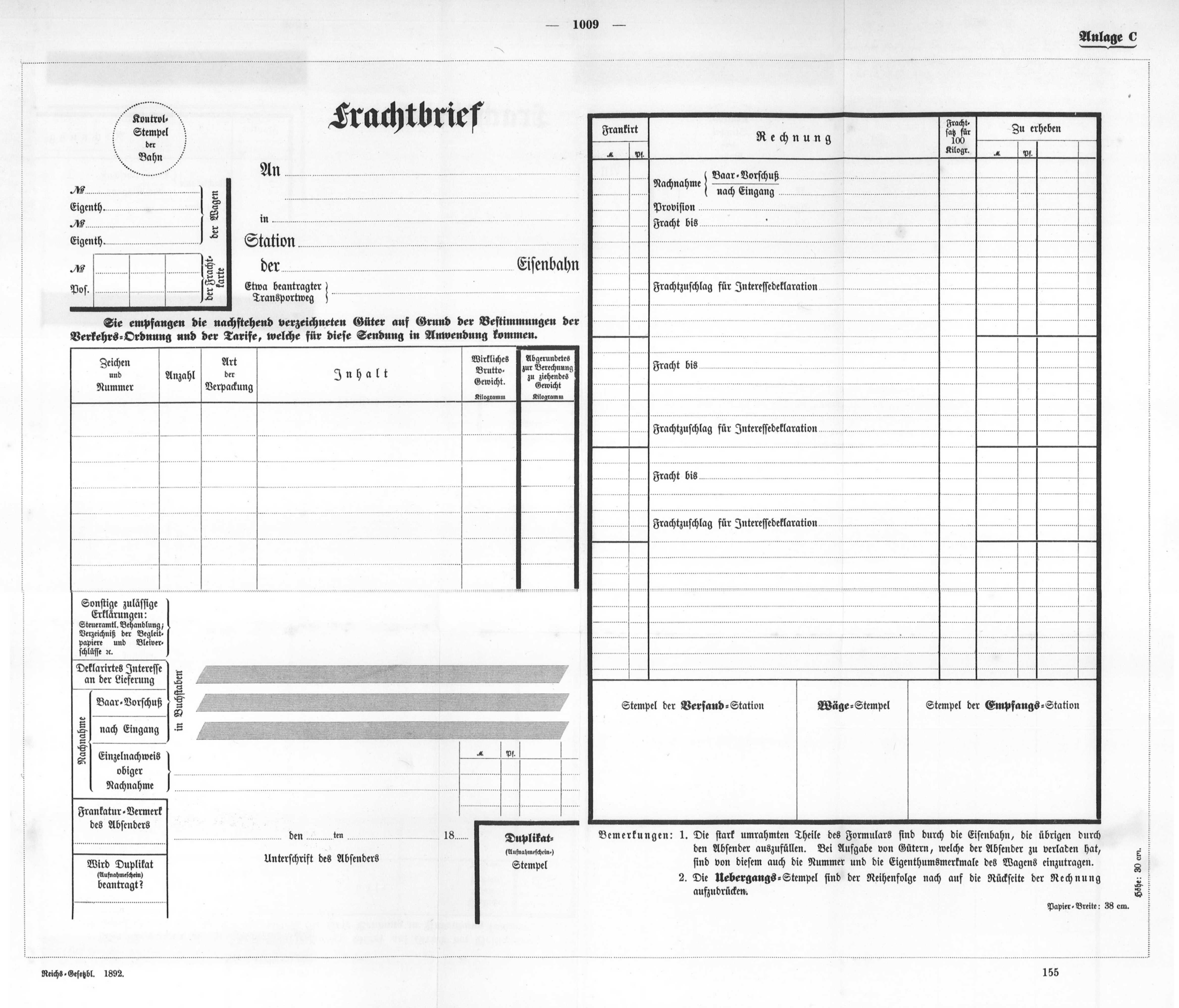 Scan from the Imperial Law Gazette of Germany, 1892